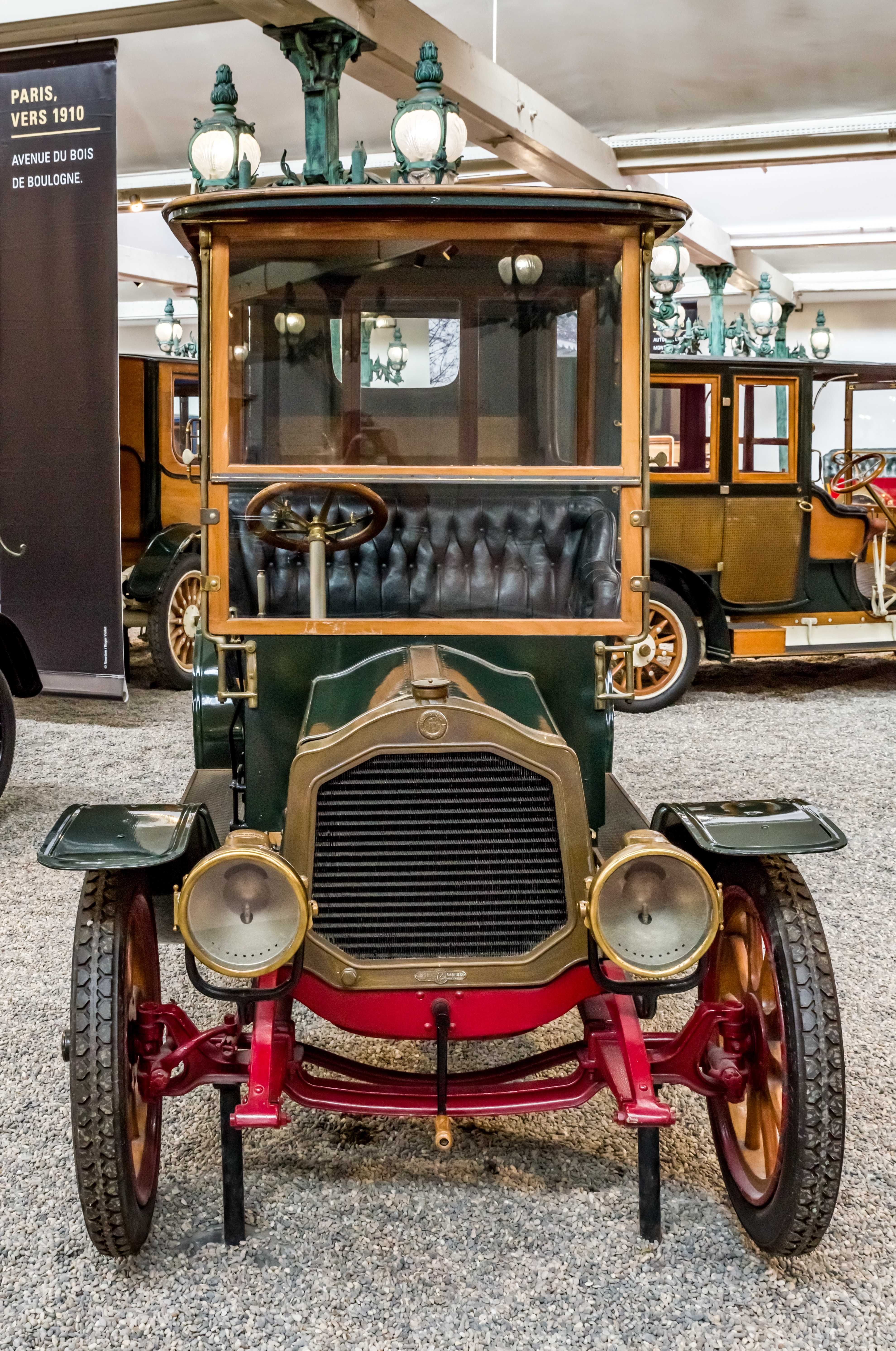 pictures from the Cité de l’Automobile – Musée National – Collection Schlump in Mulhouse, France ptictures from the 10. may 2018